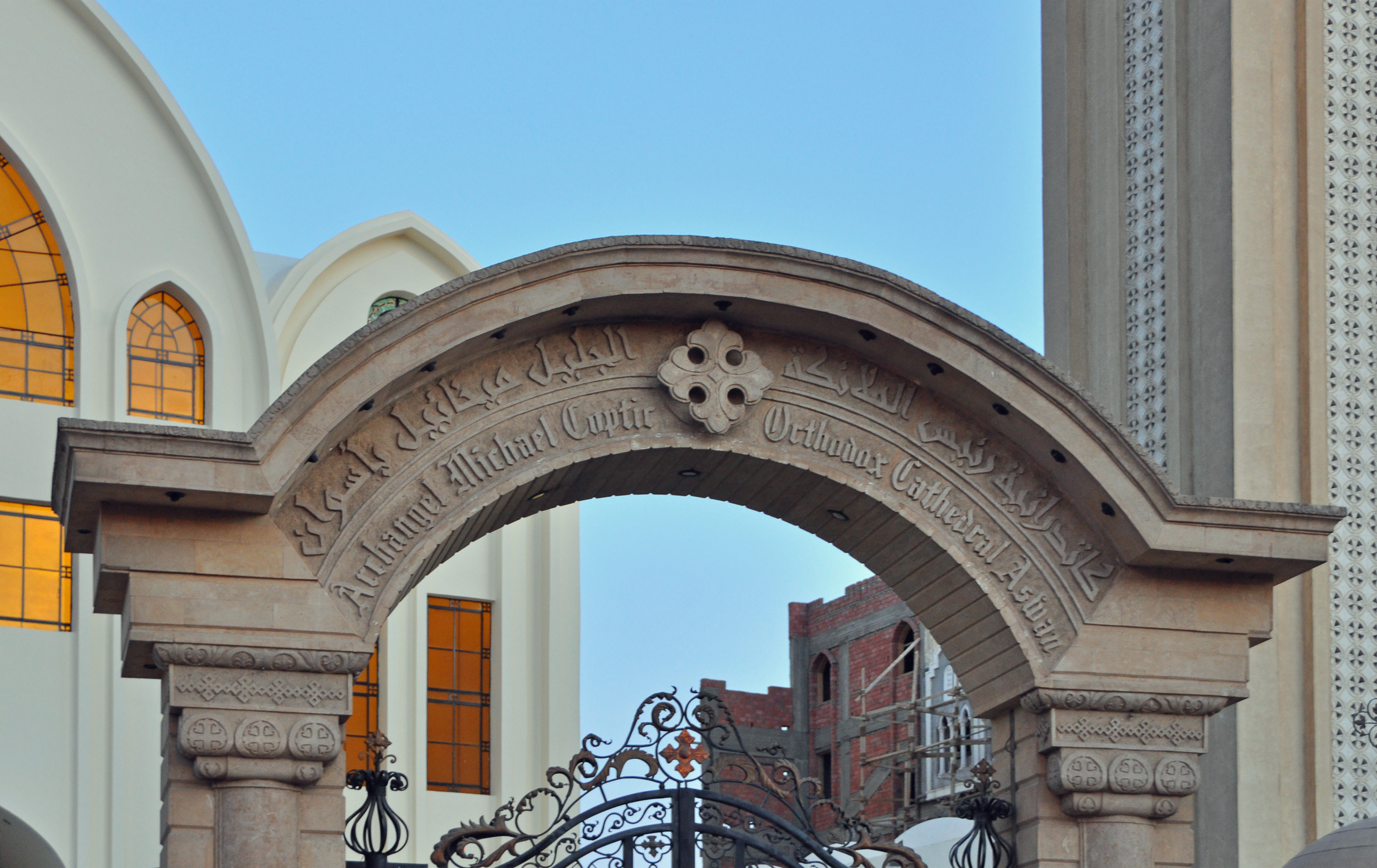 Aswan (Egypt): Archangel Michael Coptic Orthodox Cathedral - detail of the entrance